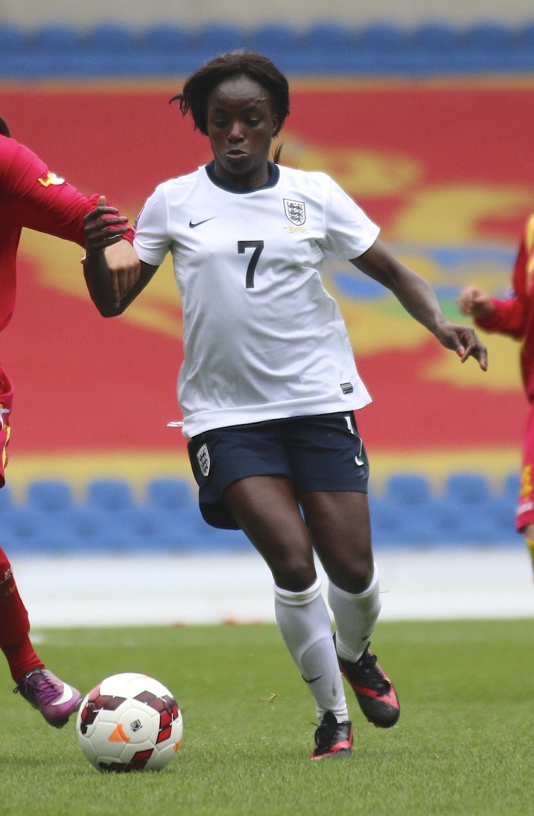 Eniola Aluko of England.